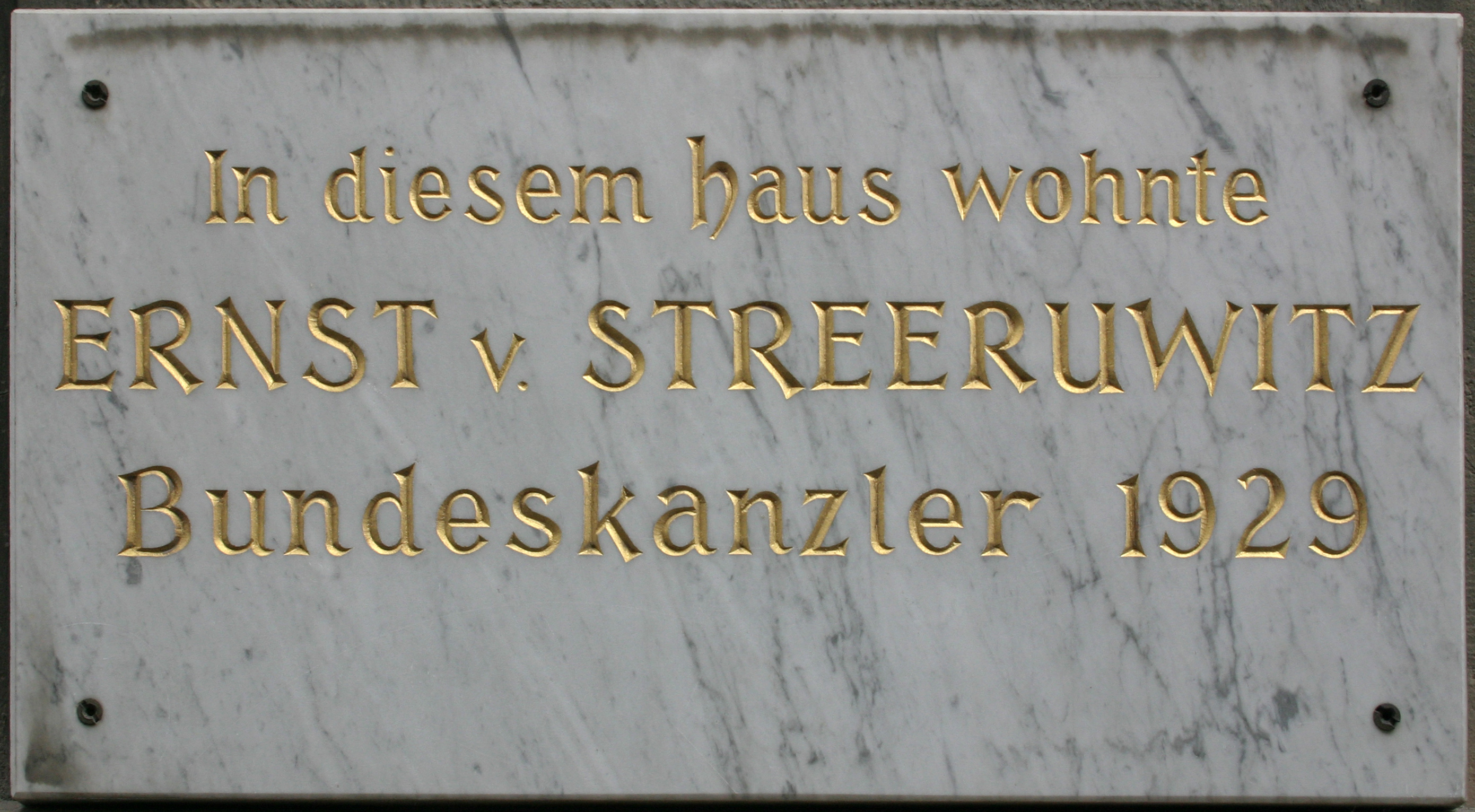 Skodagasse 15, Vienna